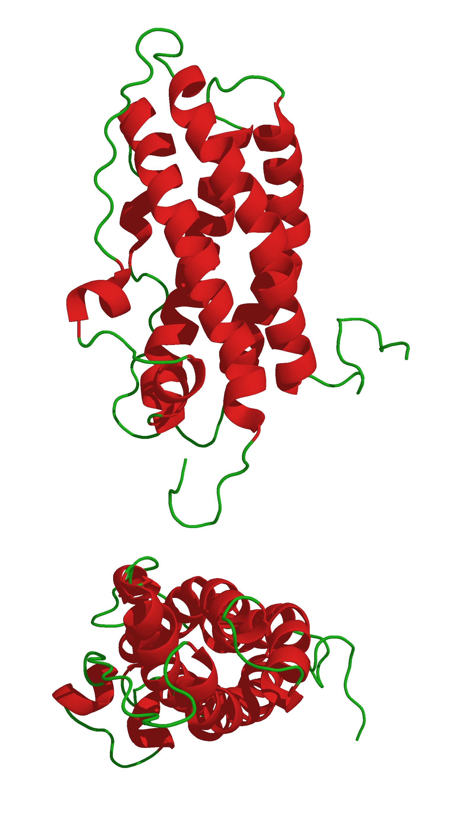 3d structure of prolactin (PRL) from PDB 1N9D from two orthogonal viewpoints. Ref: C.Keeler et al. (2003). The tertiary structure and backbone dynamics of human prolactin.. J Mol Biol, 328, 1105-1121. PMID 12729745